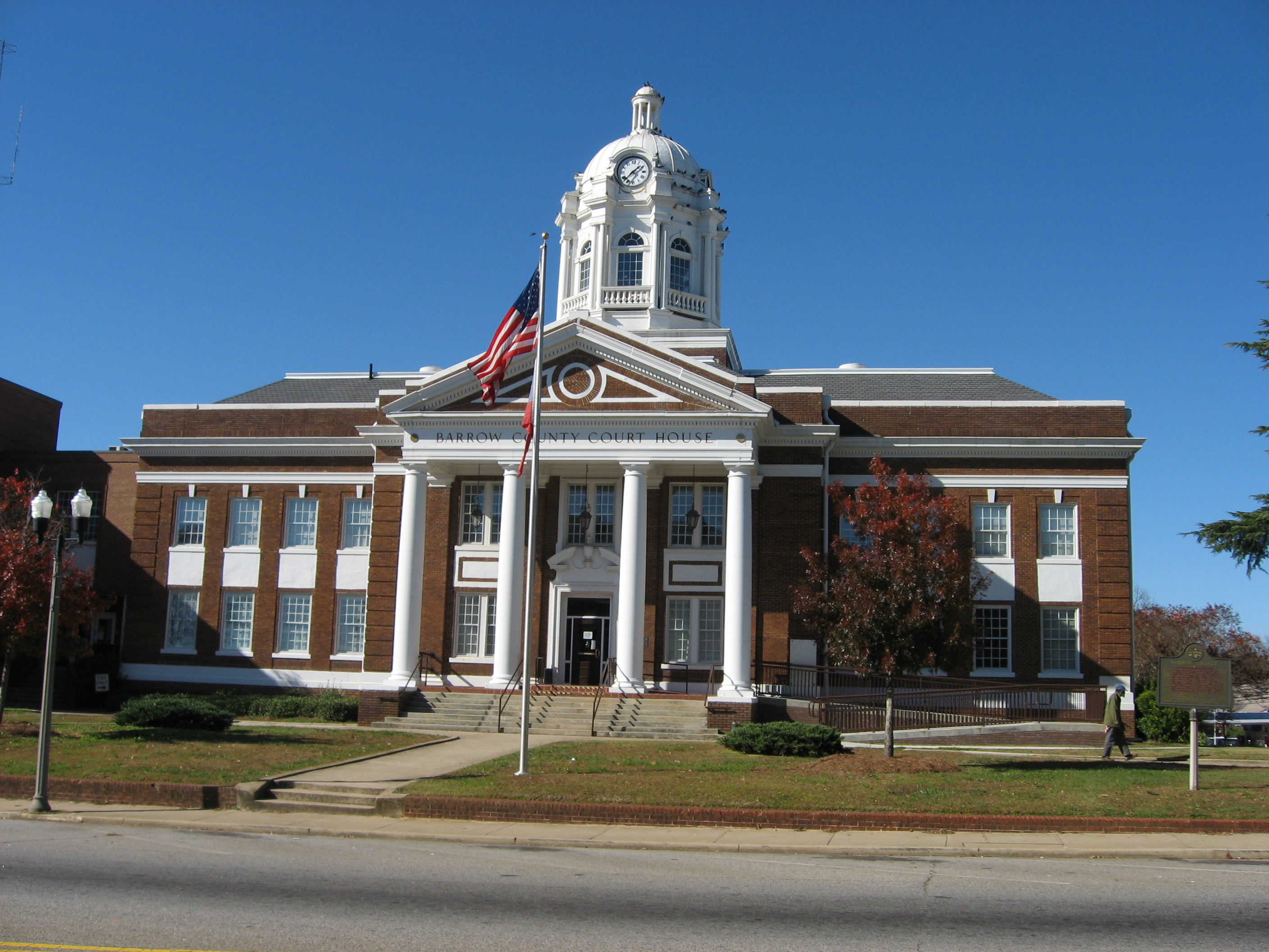 Barrow County Courthouse, Winder GA